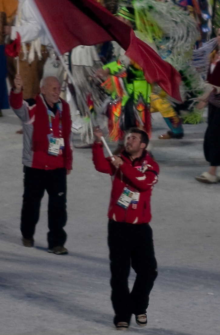 Erjon Tola (alpine ski) entering the stadium at the opening ceremonies of the 2010 Winter Olympics in Vancouver